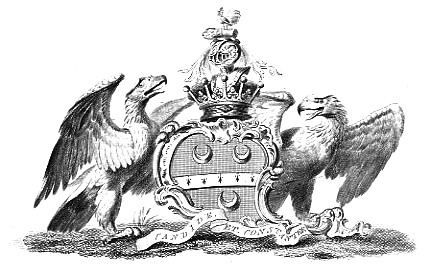 Coat of arms of the Earls of Coventry. Sable a fess ermine between three crescents or.